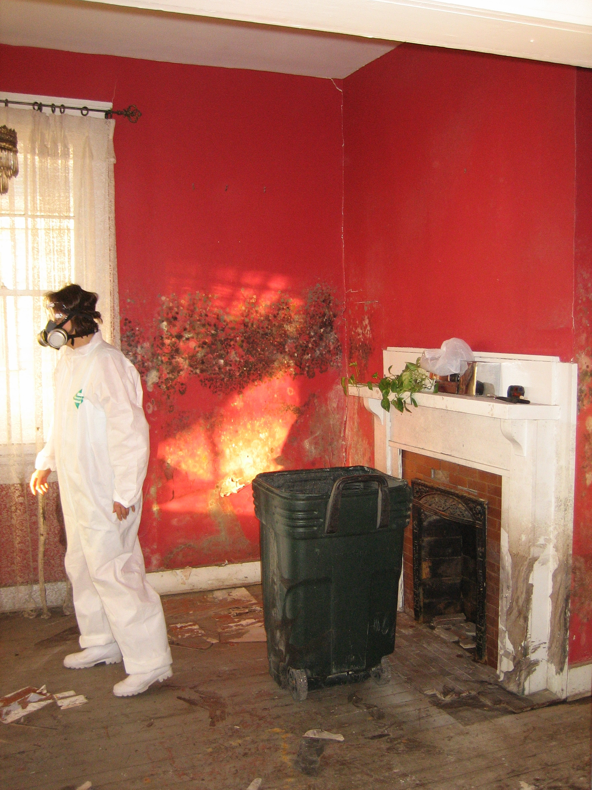 New Orleans after Hurricane Katrina: Mold in flood damaged home in Navarre section of the Lakeview/West End neighborhood, with homeowner in protective gear while salvaging some possessions.